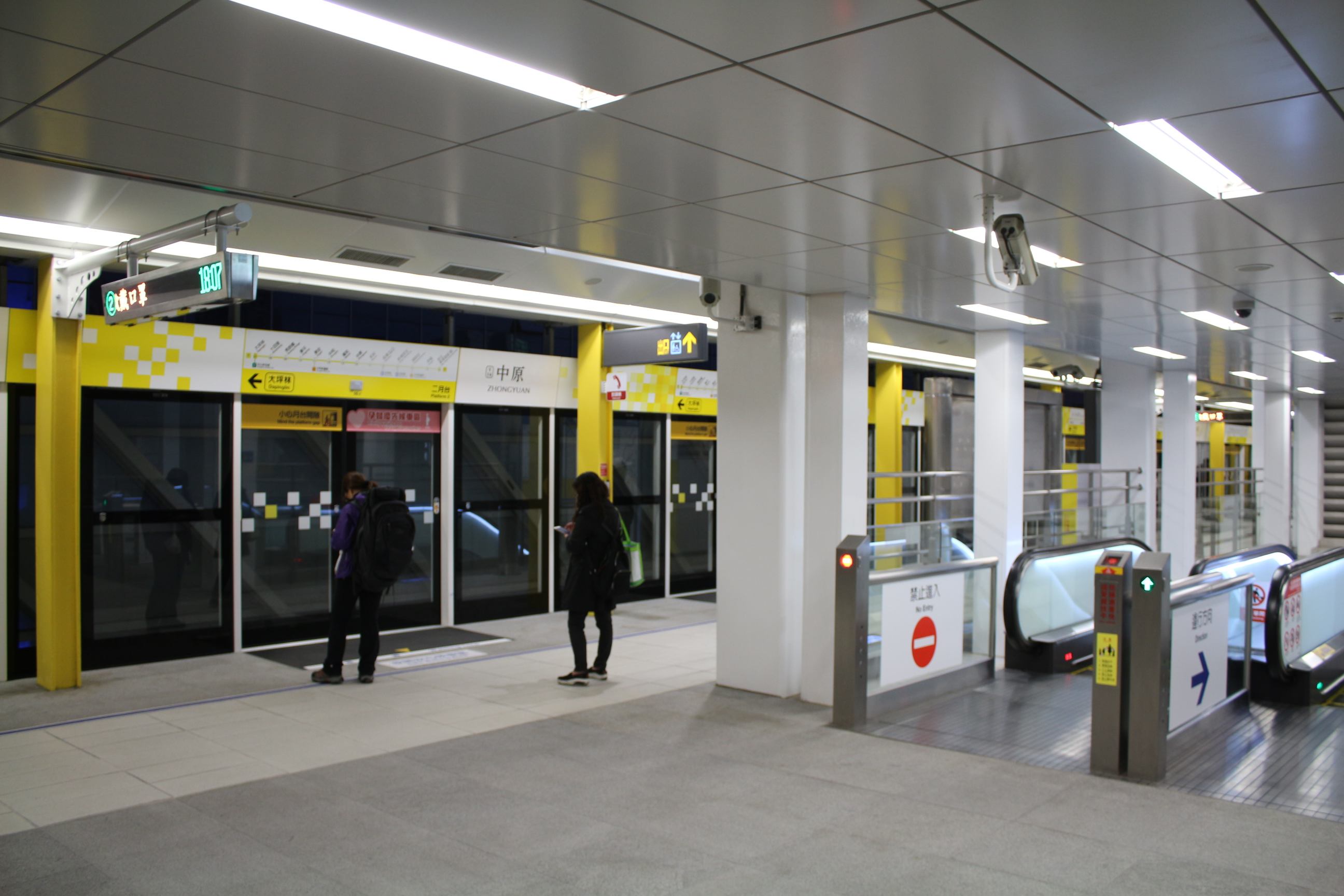 Taipei Metro Zhongyuan Station platform 2